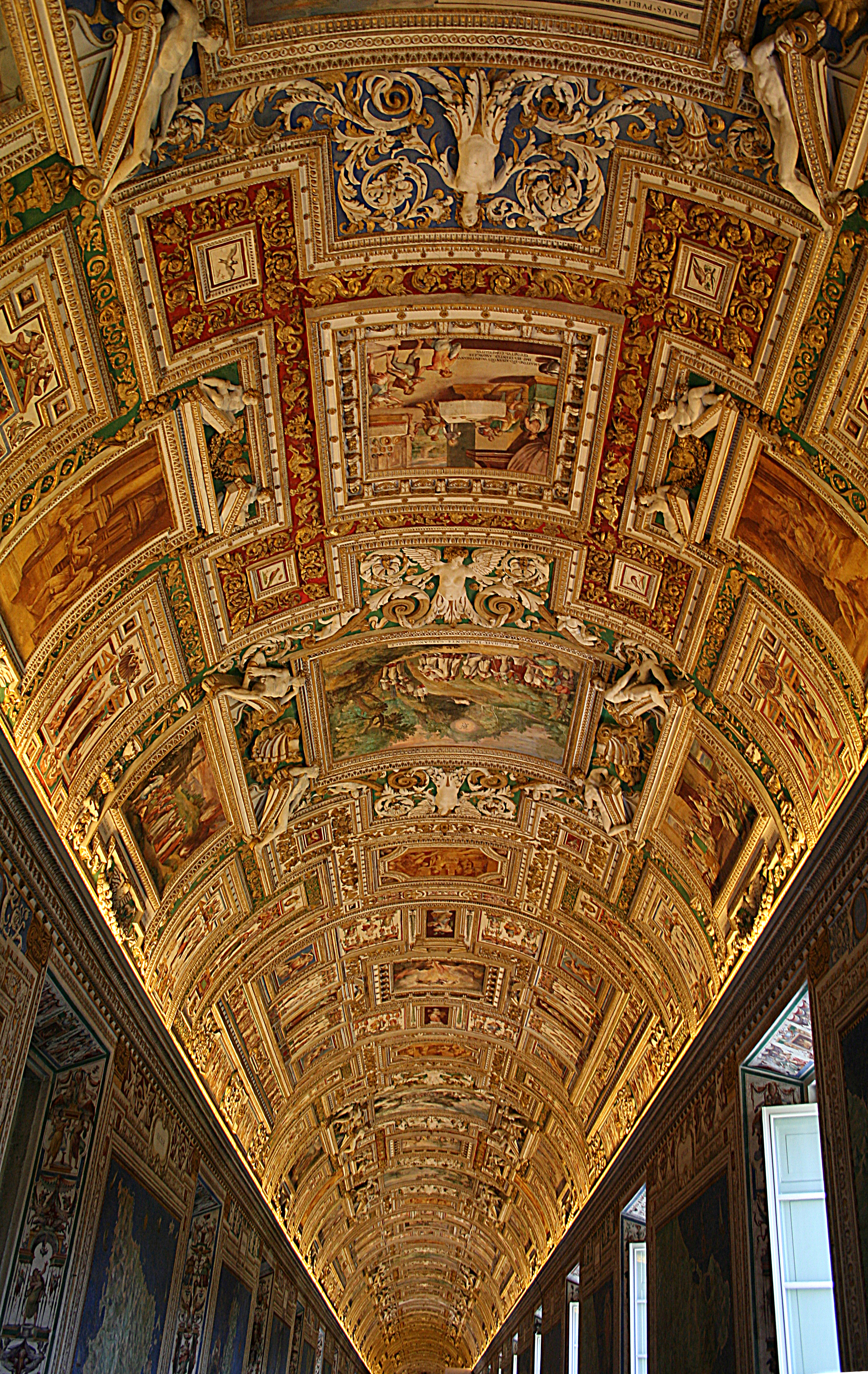 Gallery of Maps - Vatican Museums.